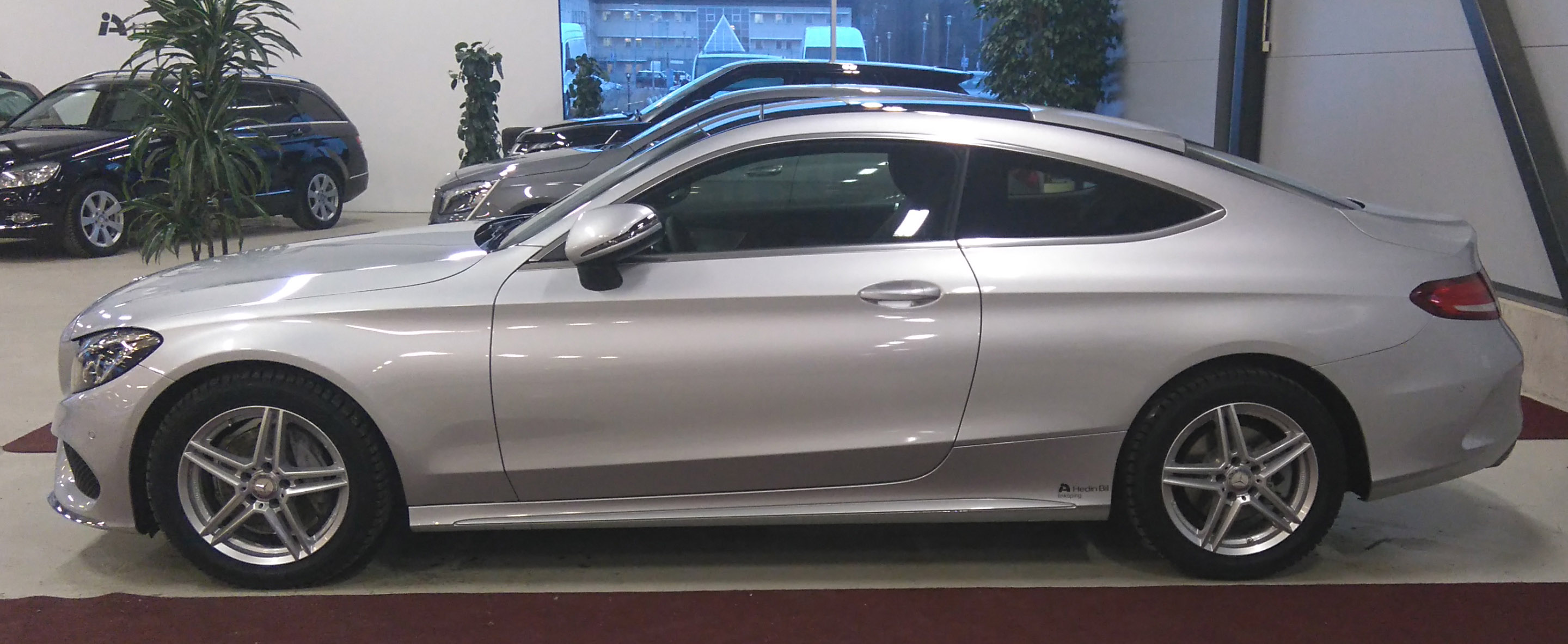 2016 Mercedes-Benz C 220d Coupe